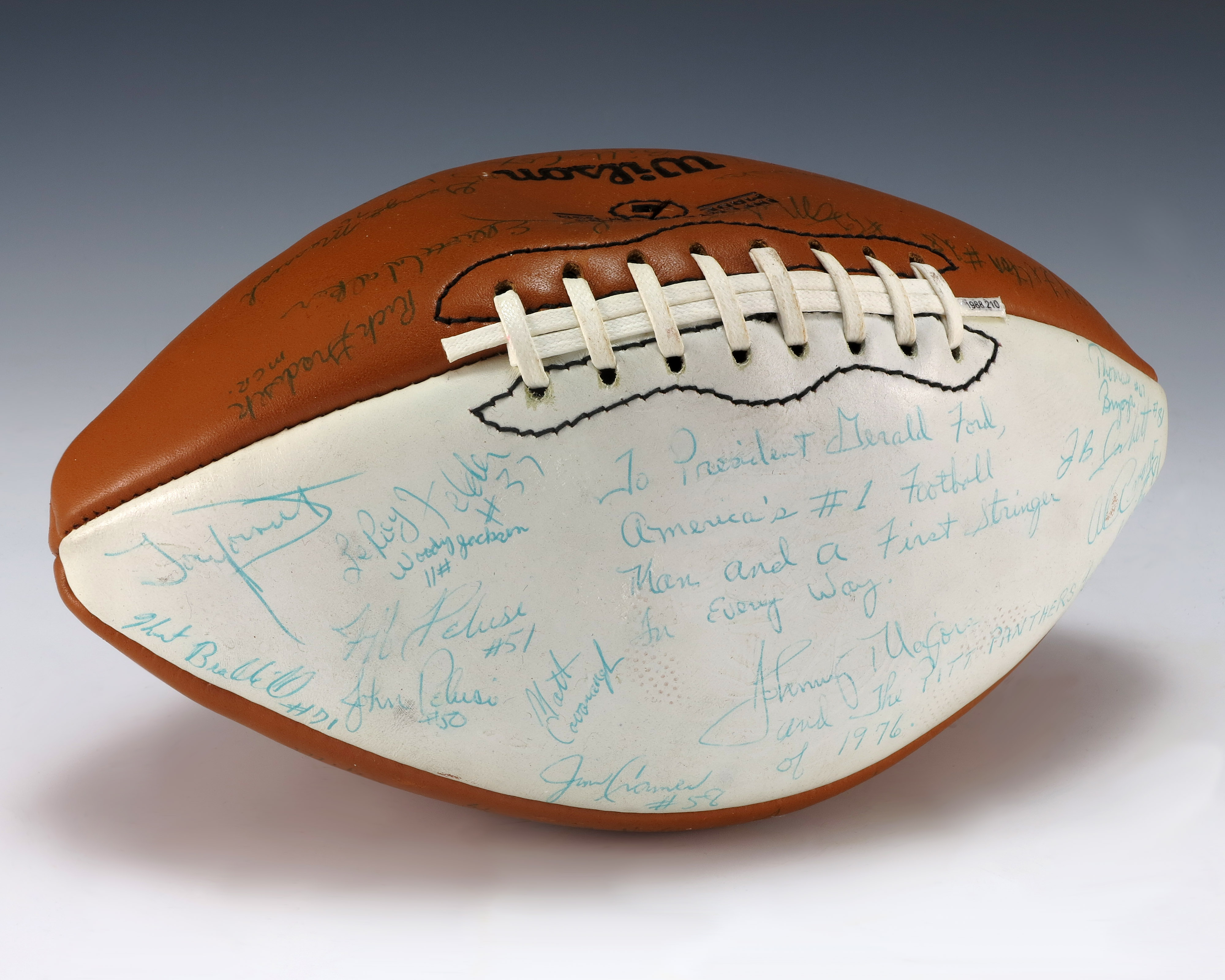 A signed University of Pittsburgh football and includes signatures from coach Johnny Majors, the Heisman Trophy winner from that year, Tony Dorsett, and the rest of the 1976 team. The football also includes an inscription to Ford which is featured on the white panel of the football.